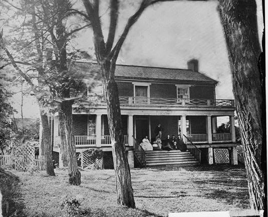 Summary TITLE: Appomattox Court House, Virginia. McLean house CALL NUMBER: LC-B811- 1210 A[P&P] CREATOR: O'Sullivan, Timothy H., 1840-1882, photographer. REPOSITORY: Library of Congress Prints and Photographs Division Washington, D.C. 20540 USA DIGITAL ID: (digital file from original neg.) cwpb 01396 CARD #: cwp2003004615/PP 13:31, 4 September 2005 Nevik.flor 537x436 (65697 bytes) (TITLE: Appomattox Court House, Virginia. McLean house CALL NUMBER: LC-B811- 1210 A[P&P] CREATOR: O'Sullivan, Timothy H., 1840-1882, photographer. REPOSITORY: Library of Congress Prints and Photographs Division Washington, D.C. 20540 USA DIGITAL ID:)